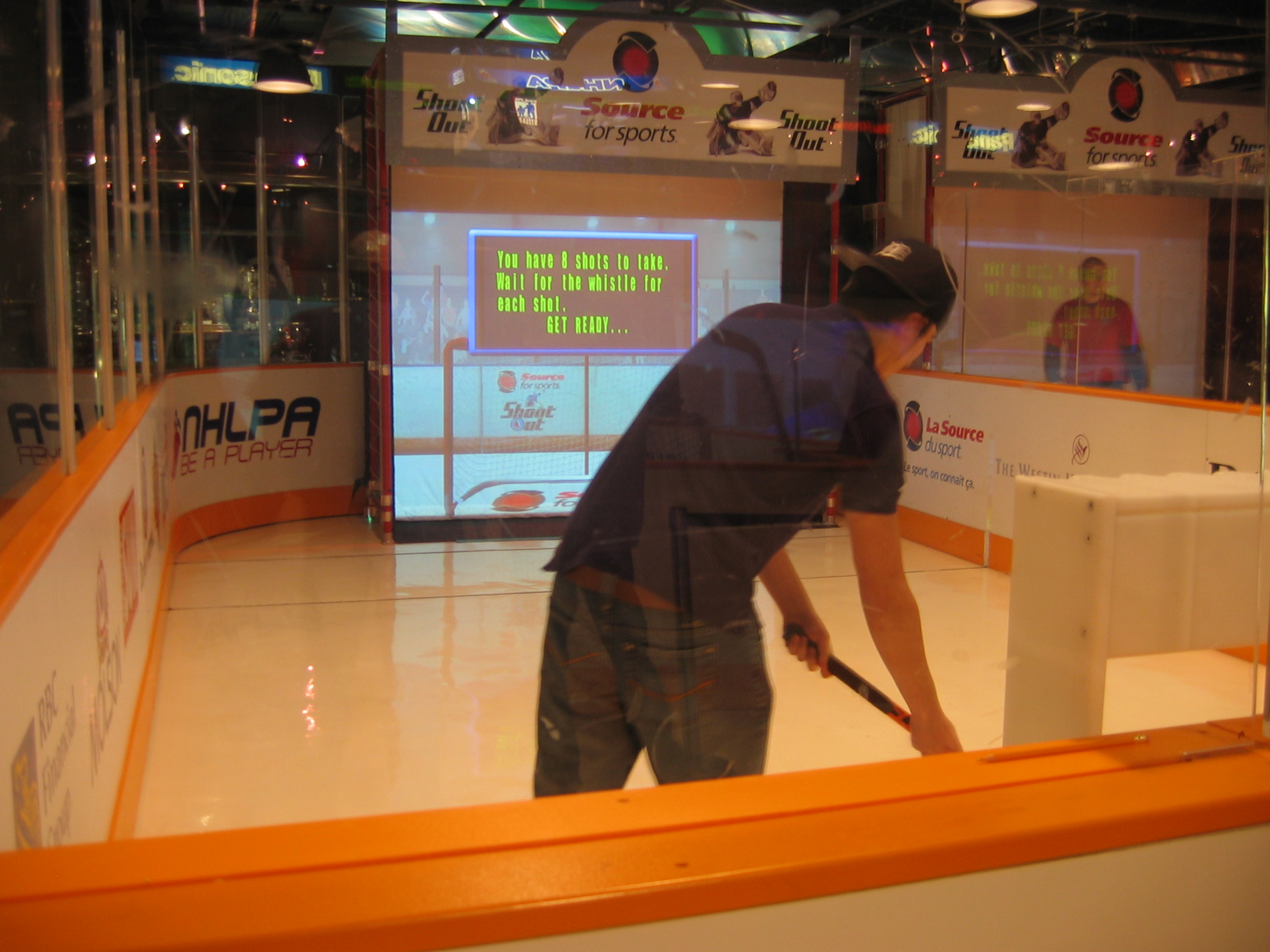 Hockey Hall of Fame - Be a Player interactive exhibit